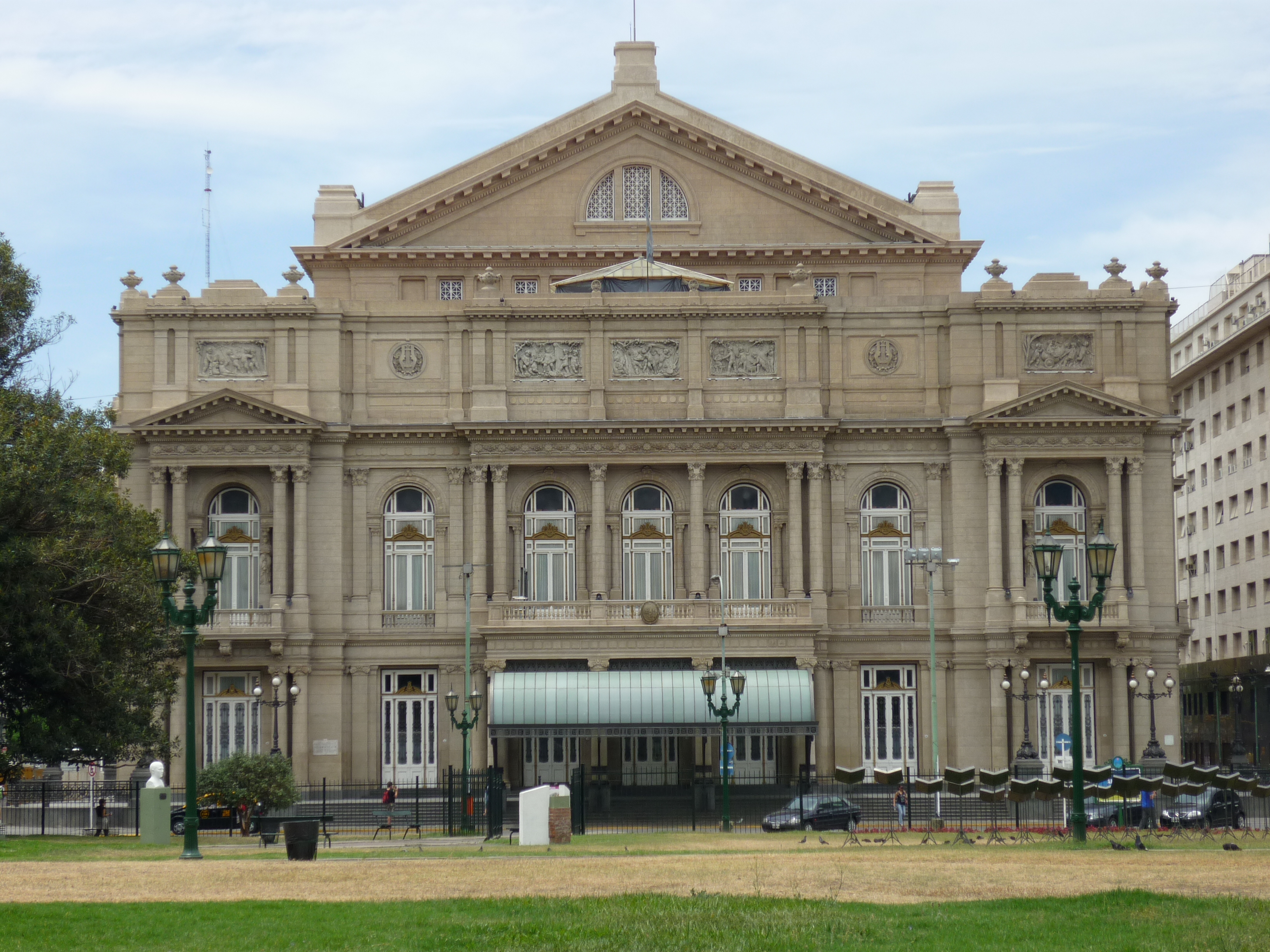 Western entrance of the Colón Opera House, Buenos Aires.